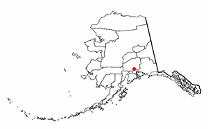 Adapted from Wikipedia's AK borough maps by Seth Ilys.